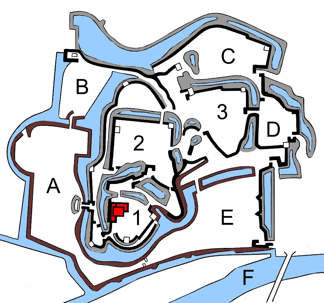 Okazaki castle layout